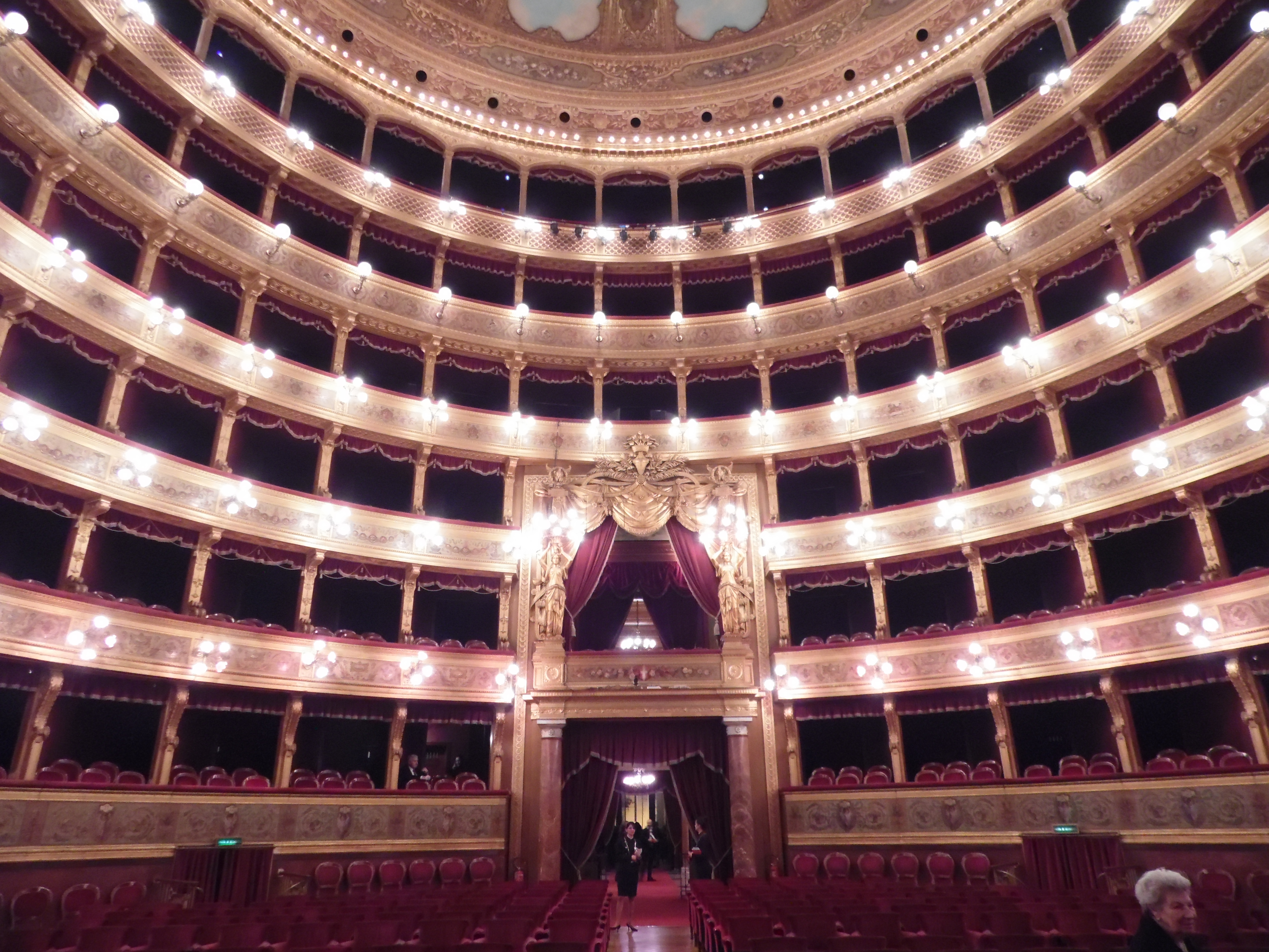 Interior of Teatro Massimo (Palermo)